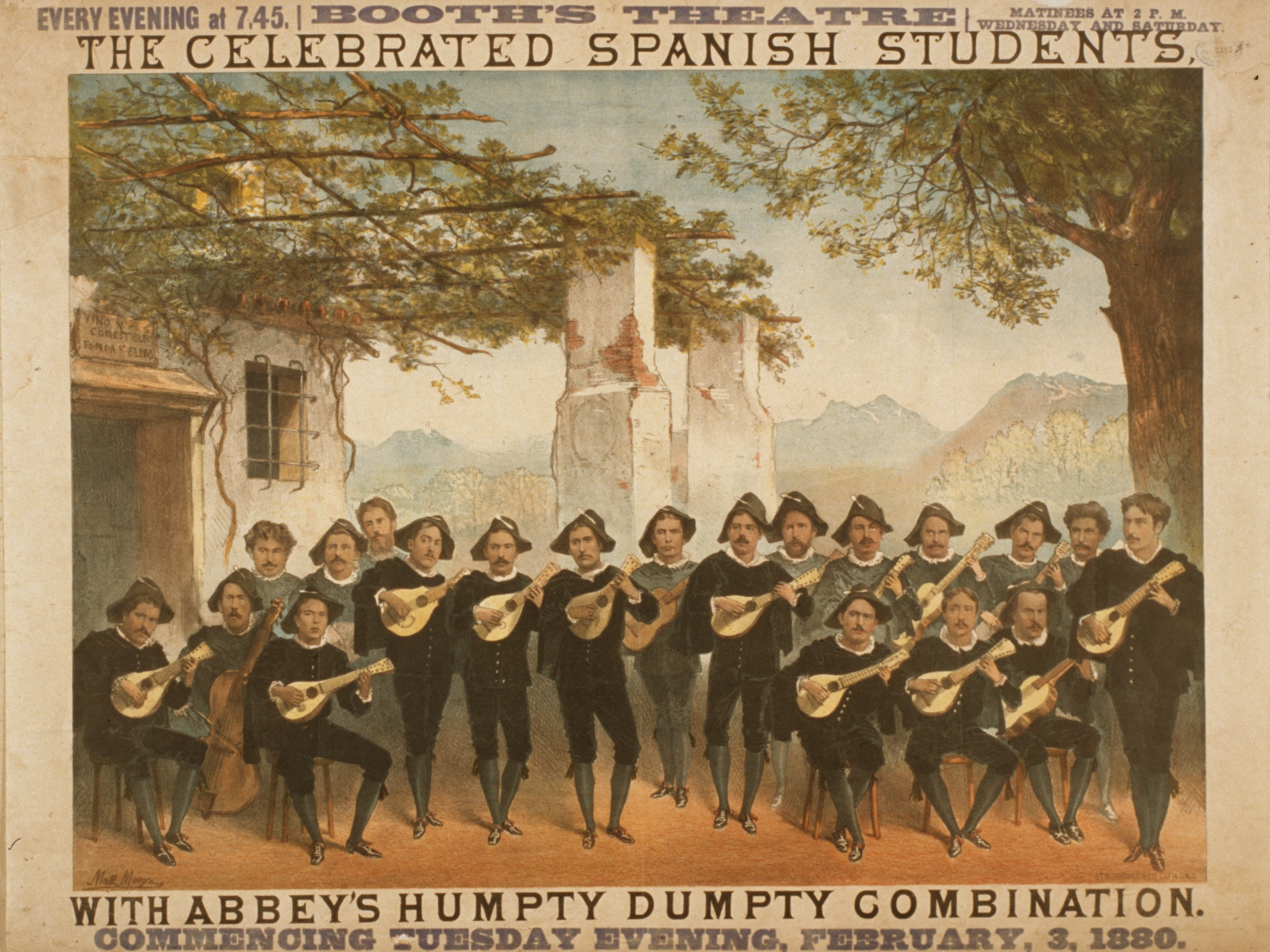 Advertisement for the "Spanish Students" in 1880 at the Booth's Theater in New York. The Humpty Dumpty Combination was a musical grouping put together by Abbey, with whom the Spanish Students performed.